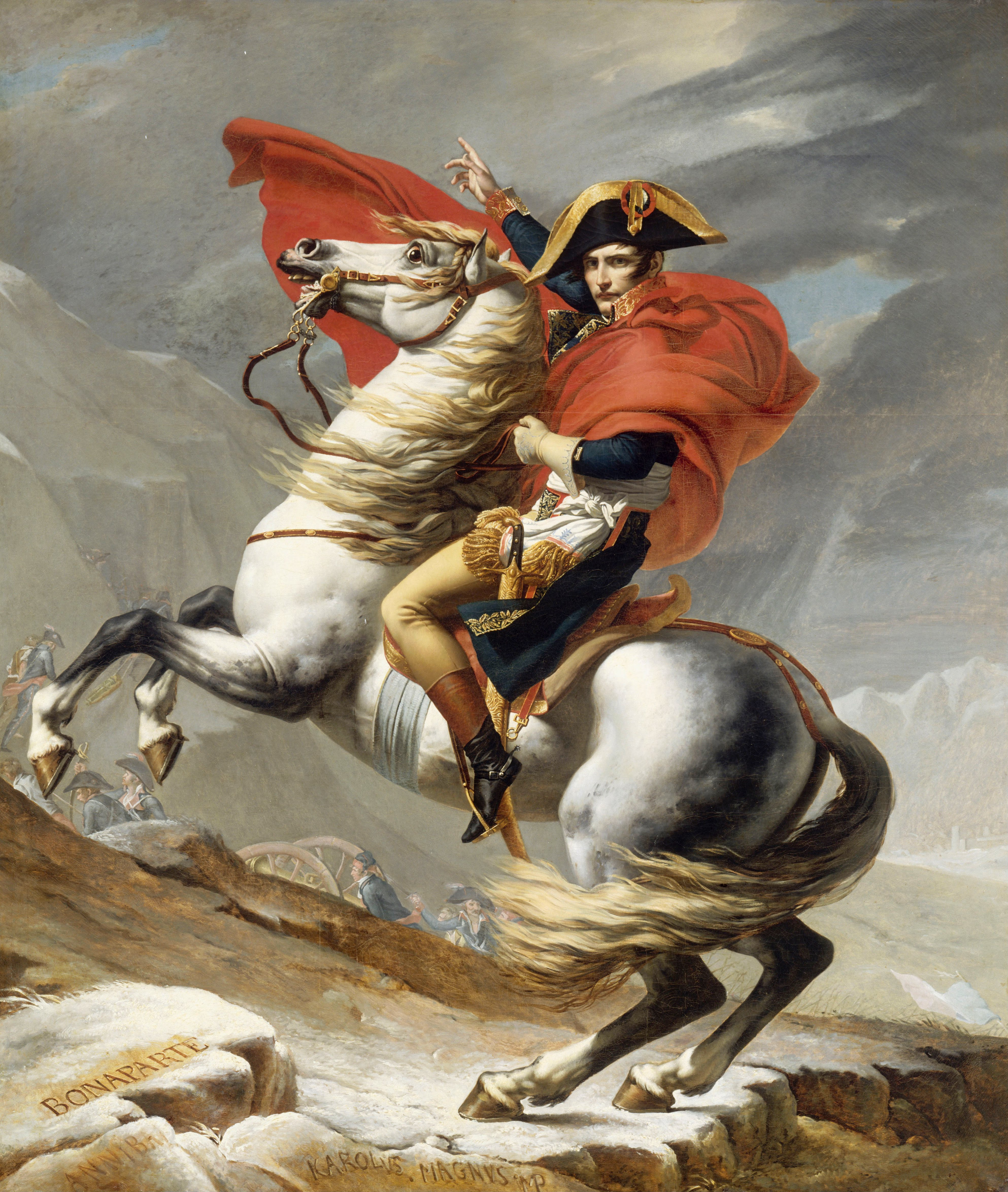 the horse is a dappled grey, the tack is identical to that of the Charlottenburg version, and the girth is blue. The embroidery of the gauntlet is simplified with the facing of the sleeve visible under the glove. The landscape is darker and Napoleon's expression is sterner.